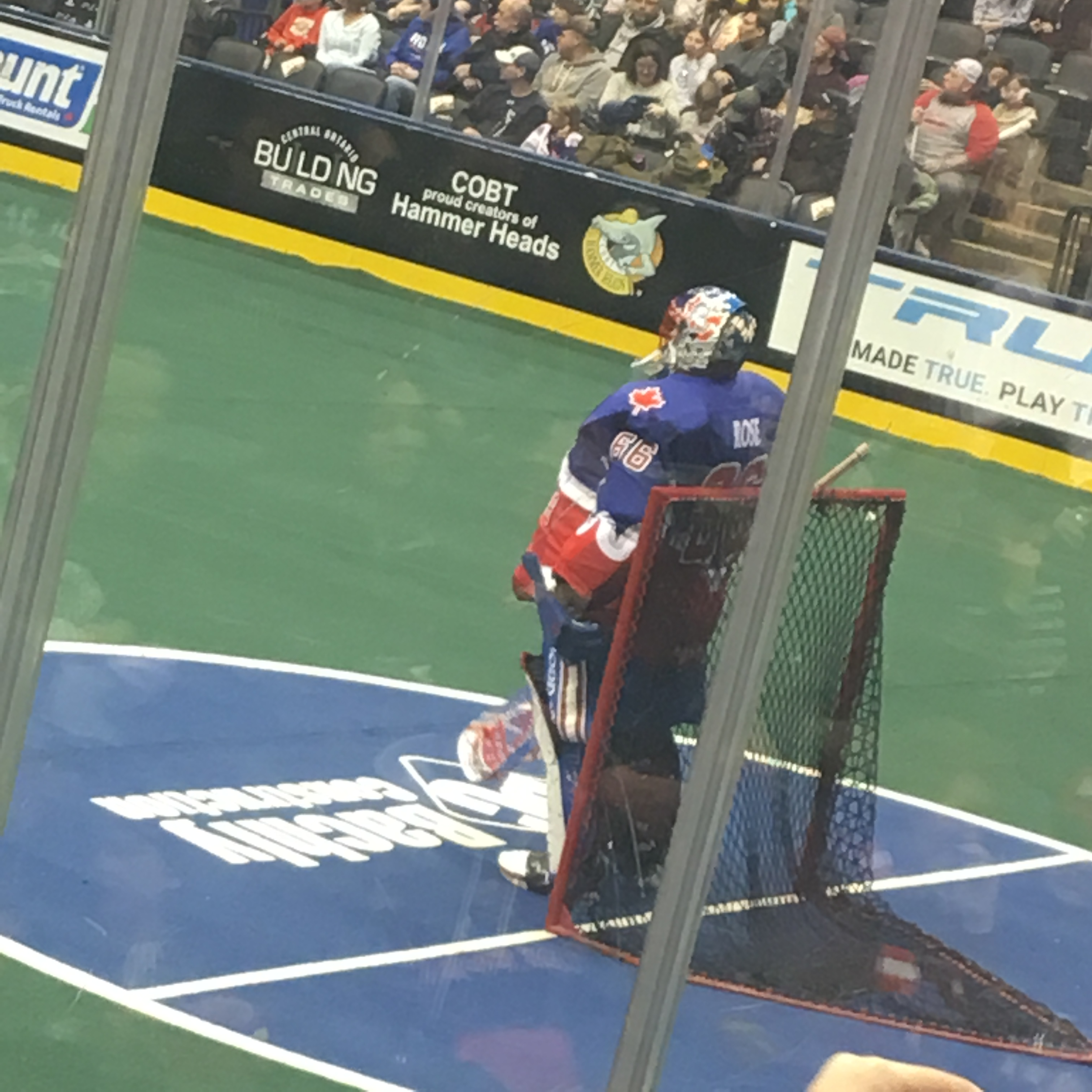 Toronto Rock goalie Nick Rose in 2020